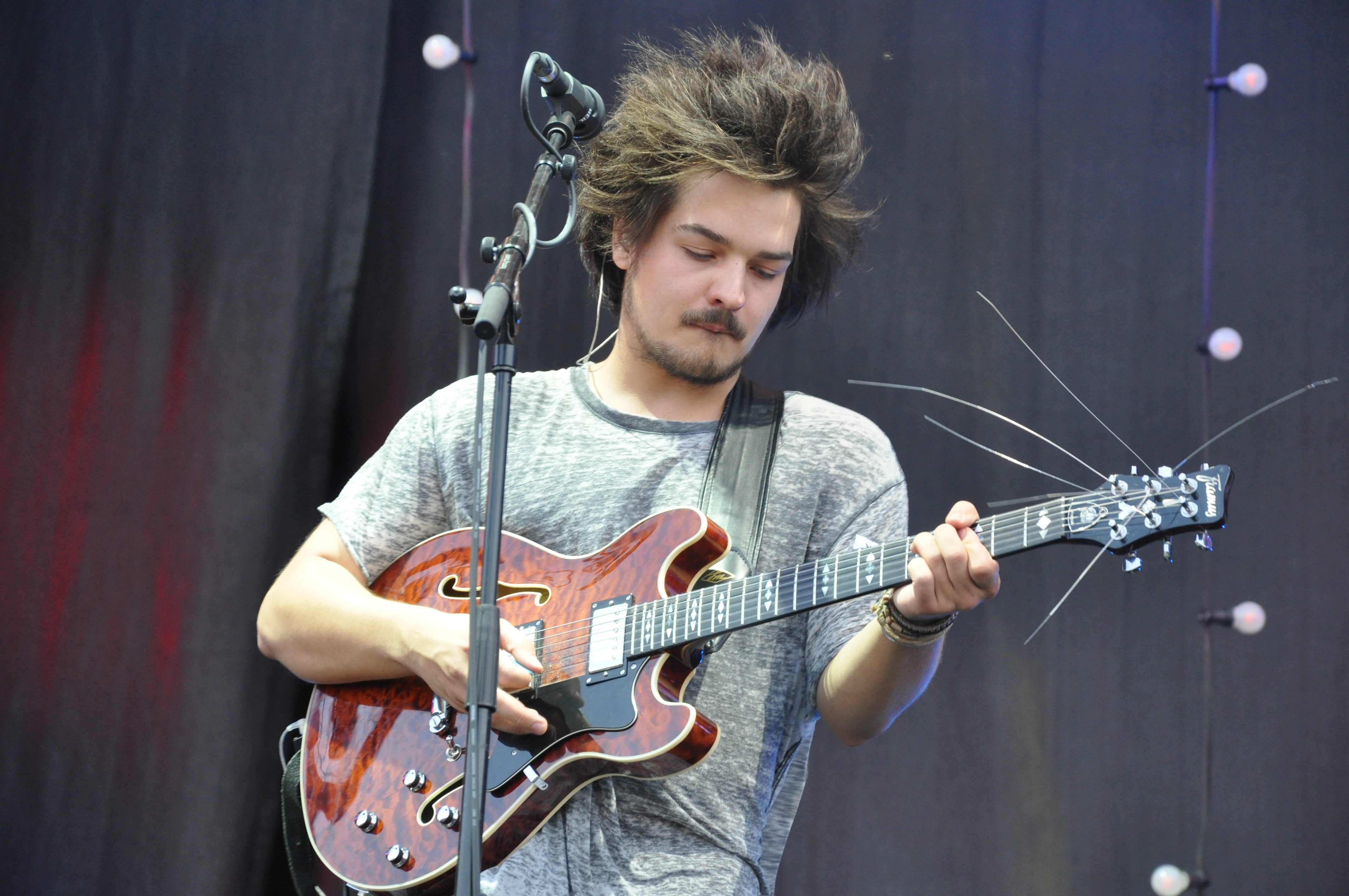 Milky Chance bei Rock am Ring 2014